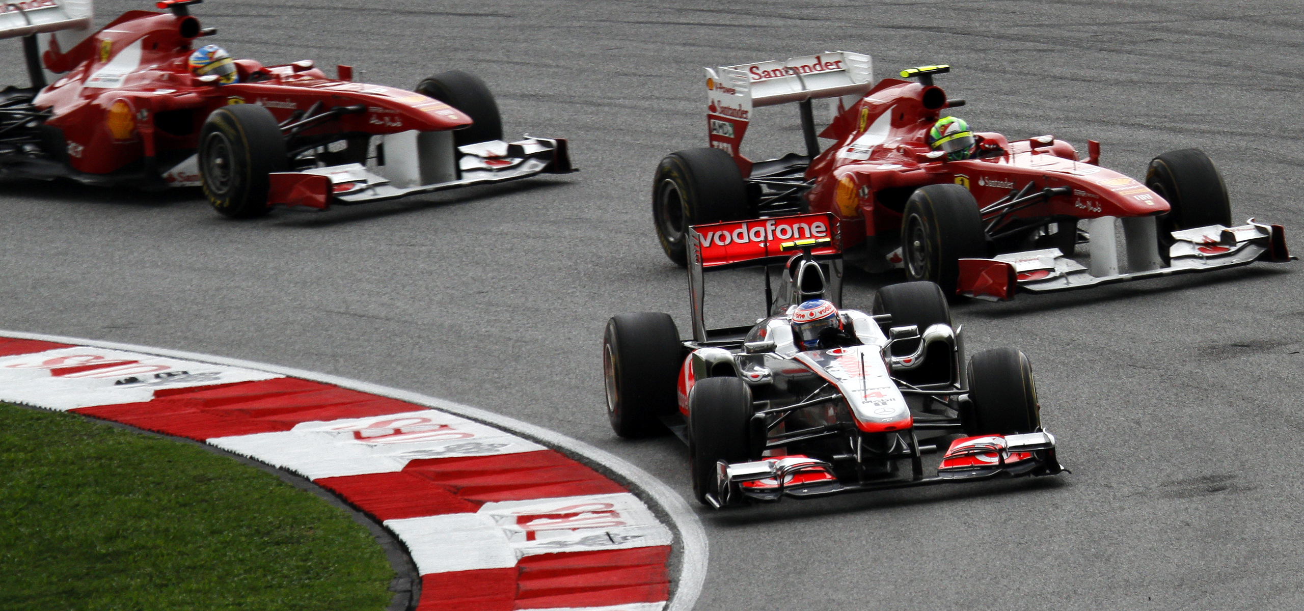 Formula One 2011 Rd.2 Malaysian GP: Jenson Button managing to hold off charging Ferrari (Felipe Massa and Fernando Alonso) during race.